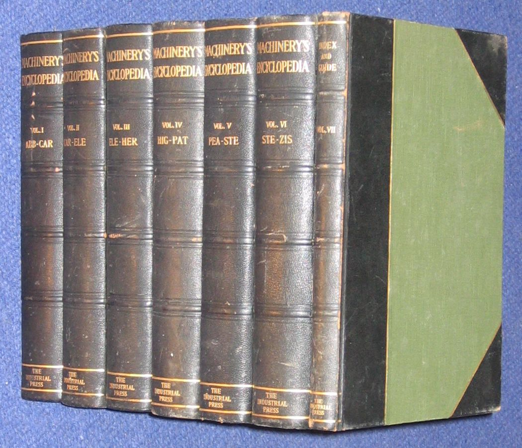 Book cover. "Machinery's Encyclopedia", 7 volumes, 1917 (public domain).